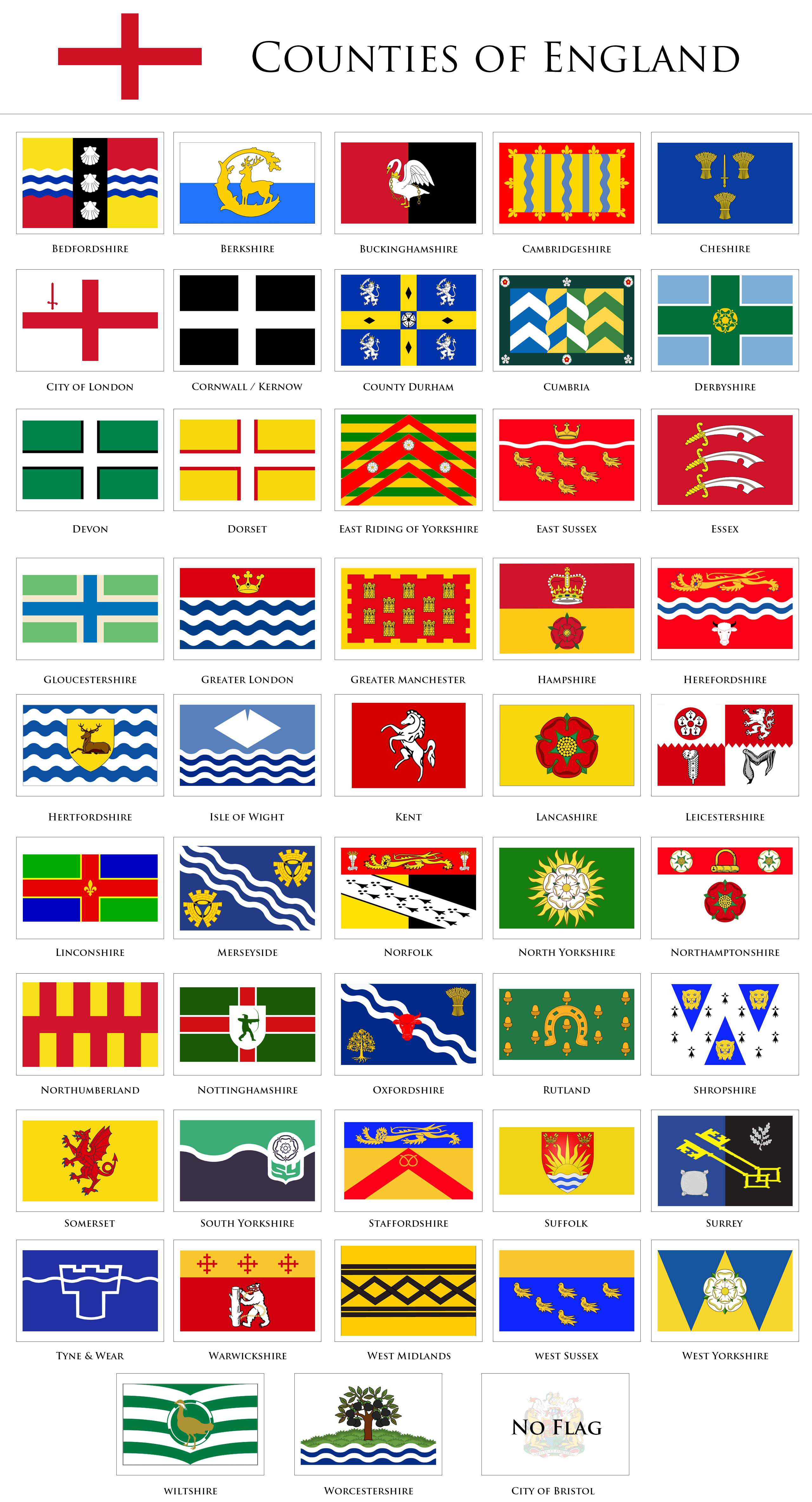 Flags of the current Ceremonial counties of England. See also: County flags of the United Kingdom